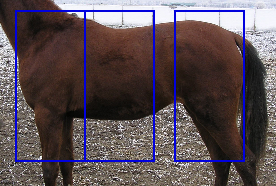 Yearling with a slightly long back